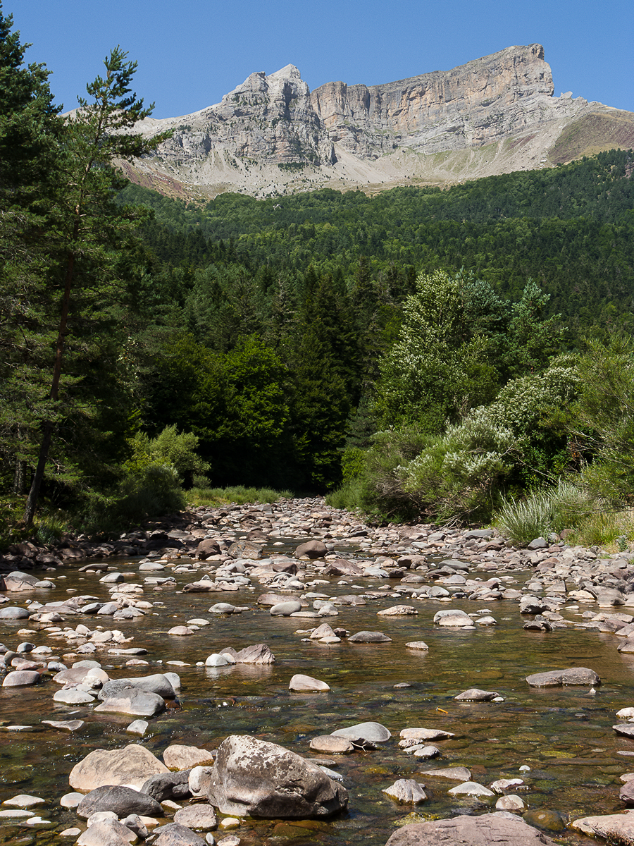 Selva de Oza This is a photography of a Site of Community Importance in Spain with the ID: ES2410003. Natura2000 entry, EEA entry